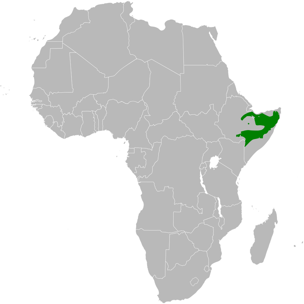 Mirafra gilletti distribution map; using BlankMap-Africa.svg, based on